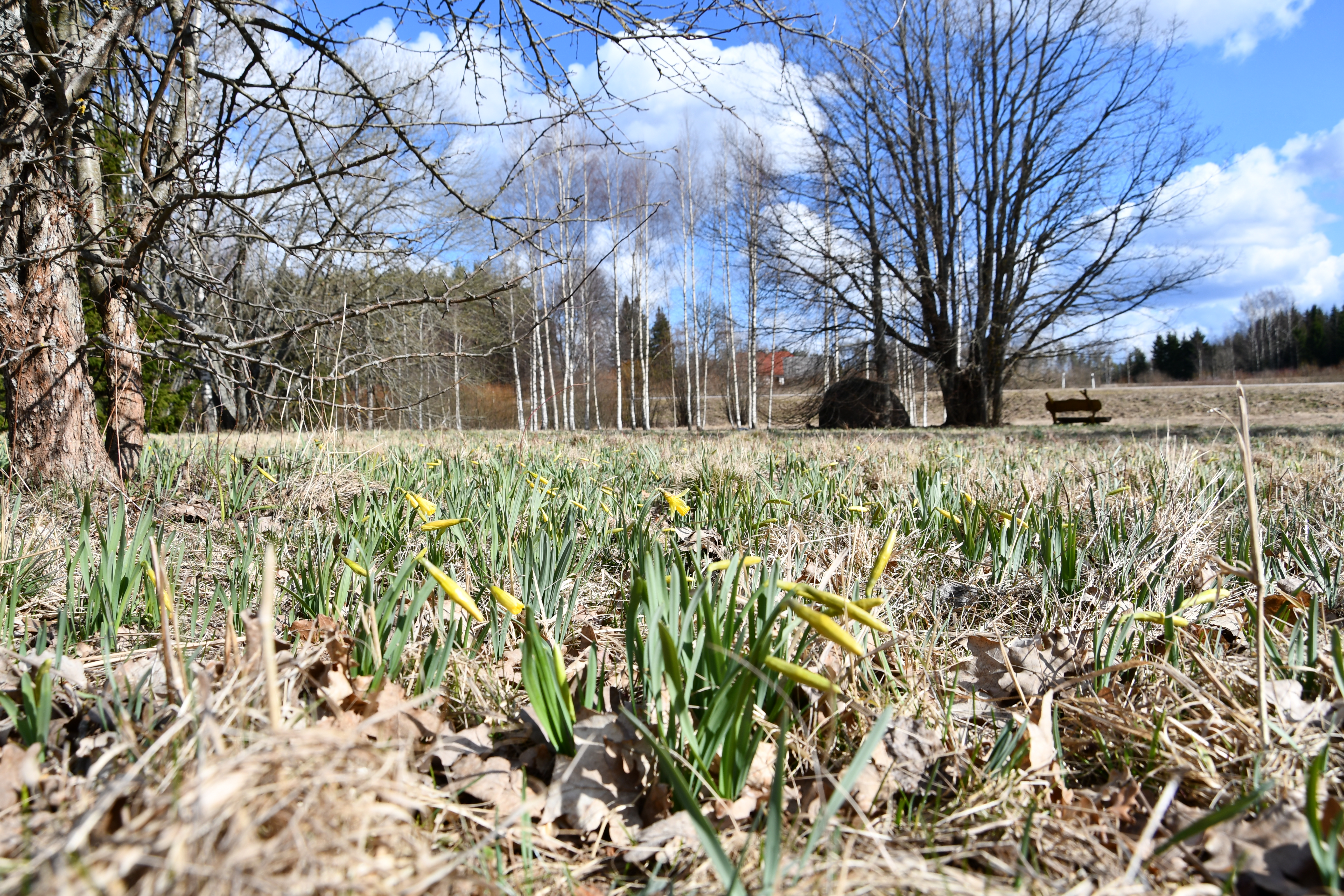 Protected area of wild daffodil natural inhabitat in Tartumaa, Estonia